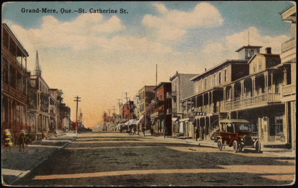 Grand-Mère, Qué., St. Catherine St., carte postale, International Post Card Co.